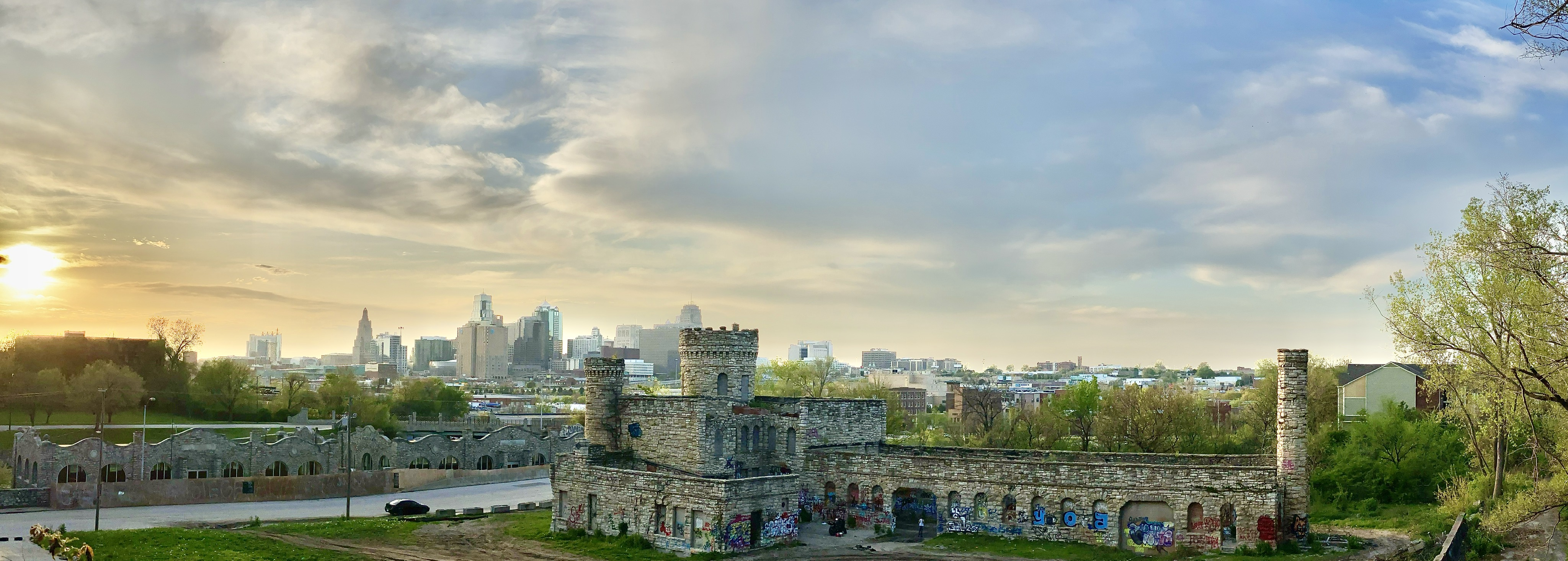 Workhouse Castle in Kansas City, Missouri, rear view with the sunset over downtown landscape in 2020